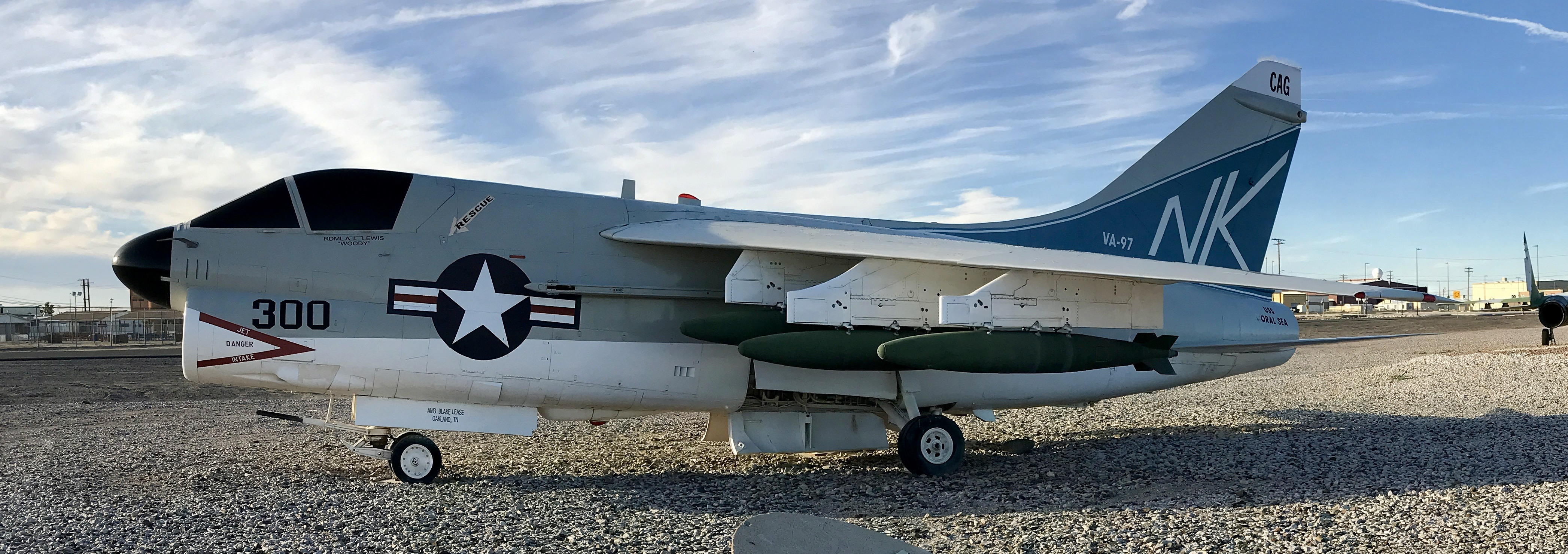 A crop of File:A-7 Corsair II at Fallon NAS Air Park Museum .jpg